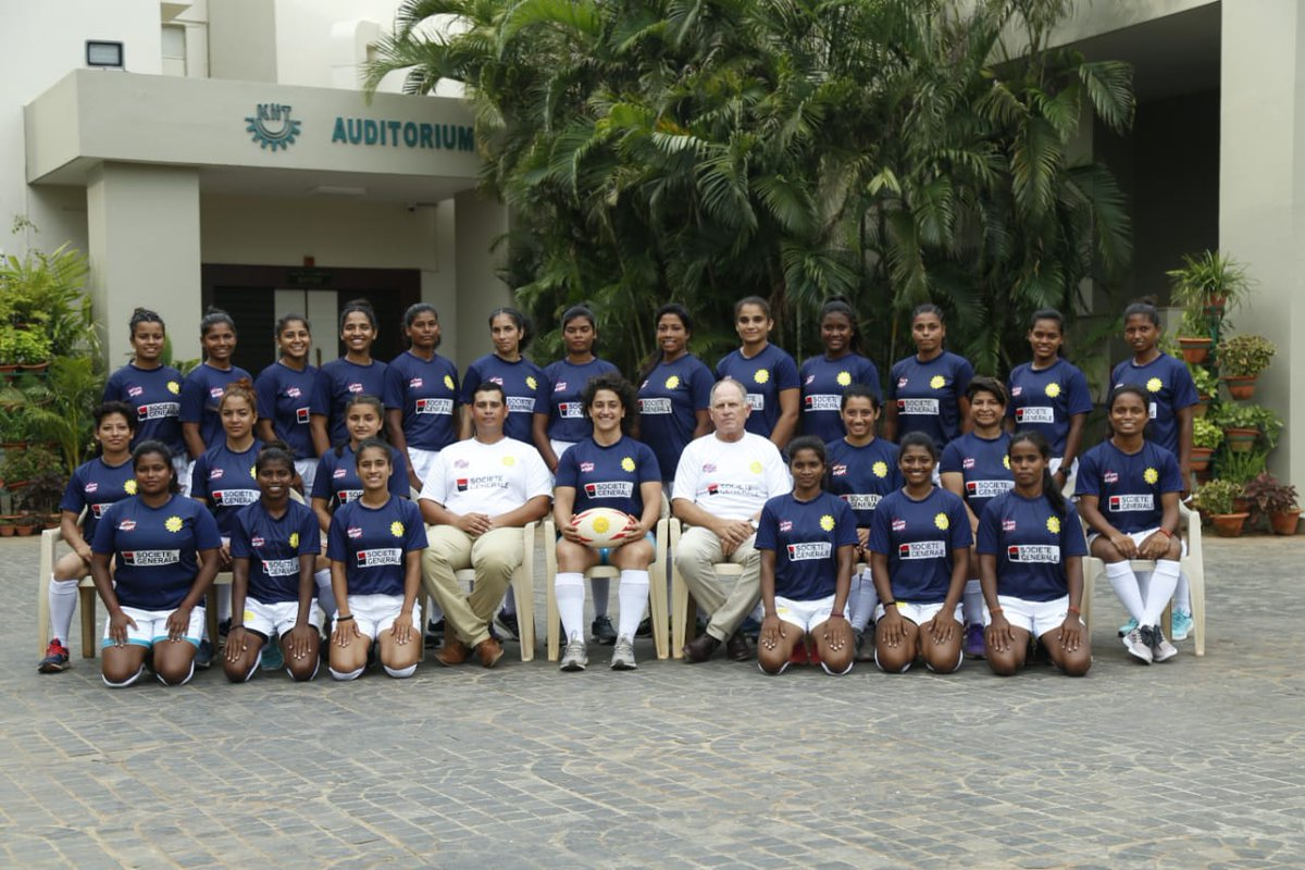 Tweet Text: Congratulate Rugby players from #Odisha, Hupi Majhi, Laxmipriya Sahu, Meerarani Hembram, Subhalaxmi Barik, Sumitra Nayak, Parbati Kisku and Rajani Sabar for their selection in the Indian squad for Asia Rugby Women’s Championship to be played in Manila. Best wishes to the team.